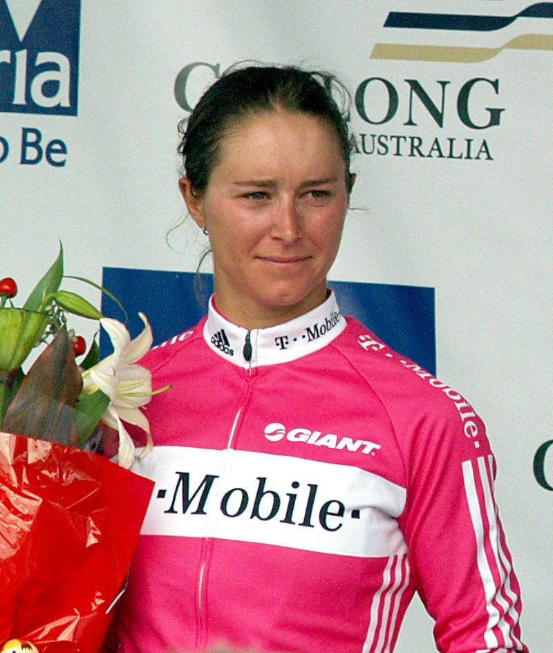 Australian cyclist Oenone Wood (T-Mobile) on the winners podium of the 2007 Geelong World Cup cycling race, having finished second to Nicole Cooke.